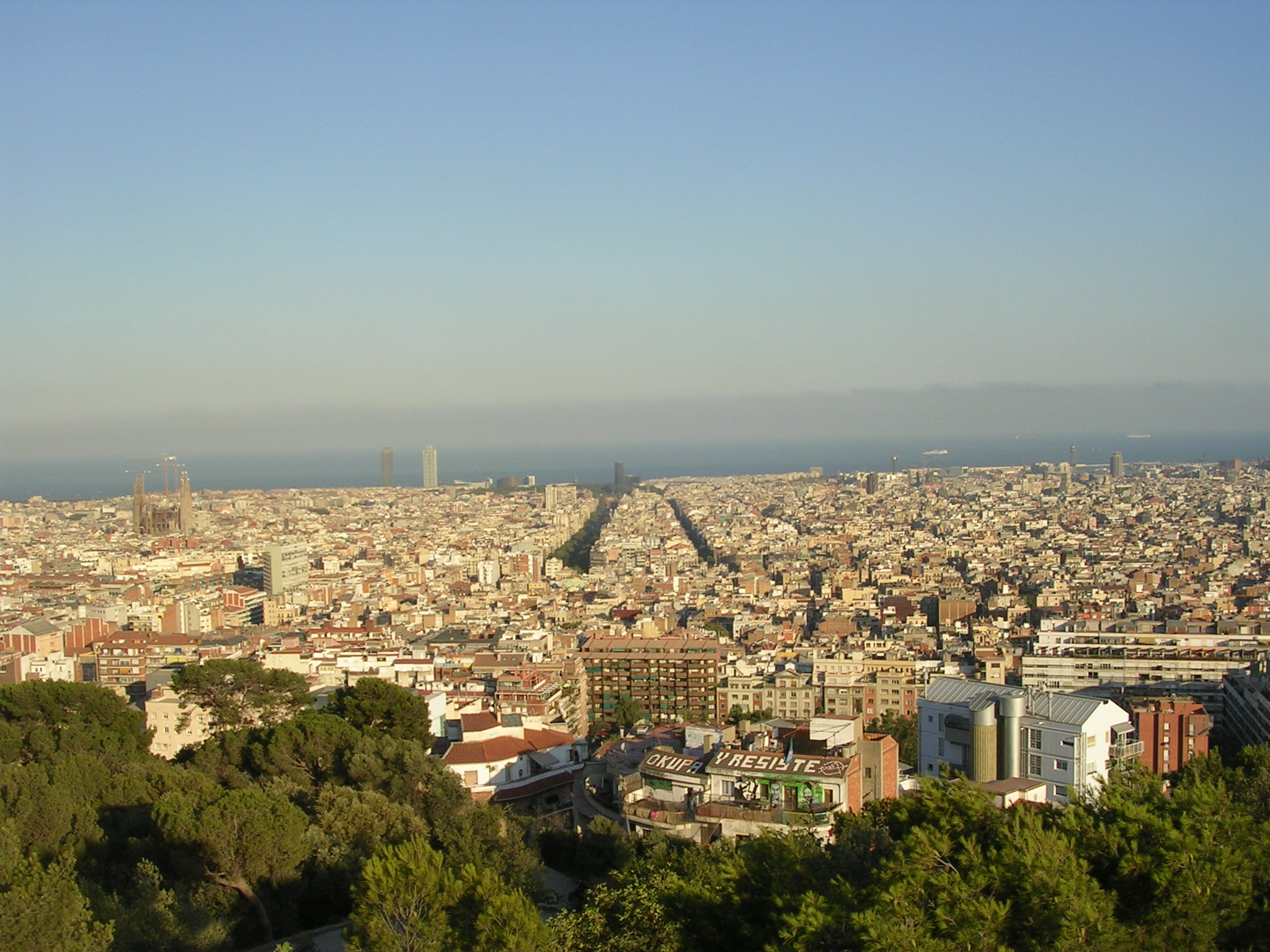 view on Barcelona from the Parc Güell in the north to the sea in the south.